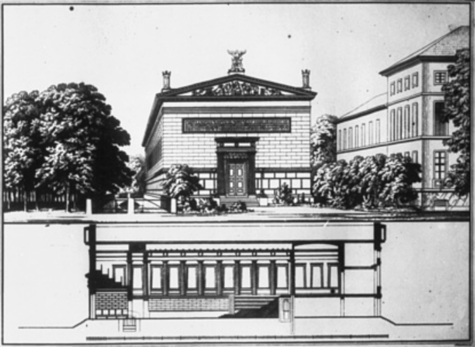 Original first concept for Karl Friedrich Schinkel's building of the Sing-Akademie in Berlin